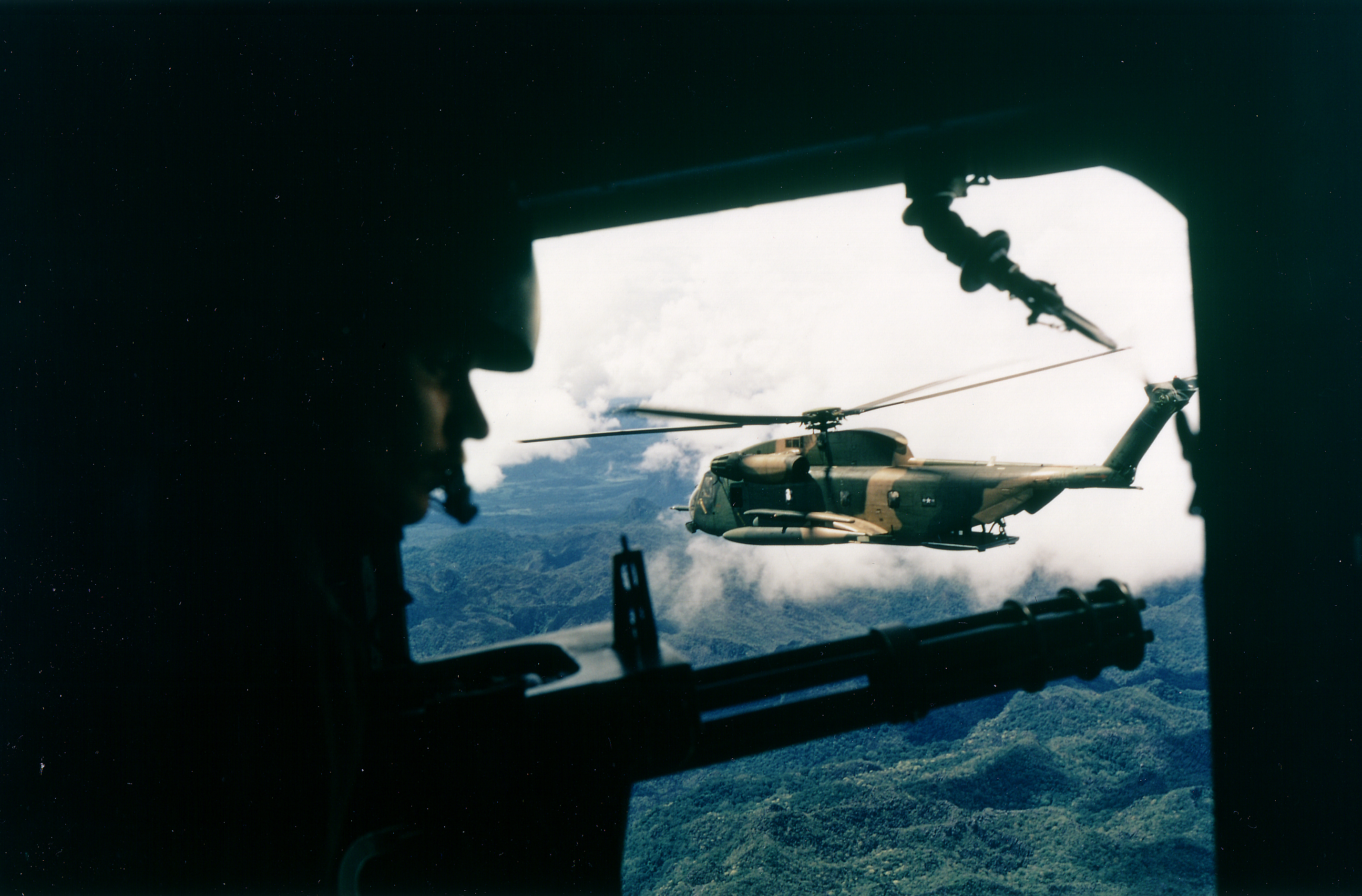 1970's -- Vietnam - October 1972 - Sideview of an HH-53 helicopter of the 40th Aerospace Rescue and Recovery Squadron as seen from the gunner's position a helicopter of the 21st Special Operations Squadron (USAF Photo by Ken Hackman)